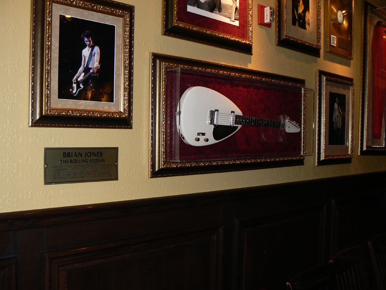 At the Hard Rock Cafe in Sacramento, CA.